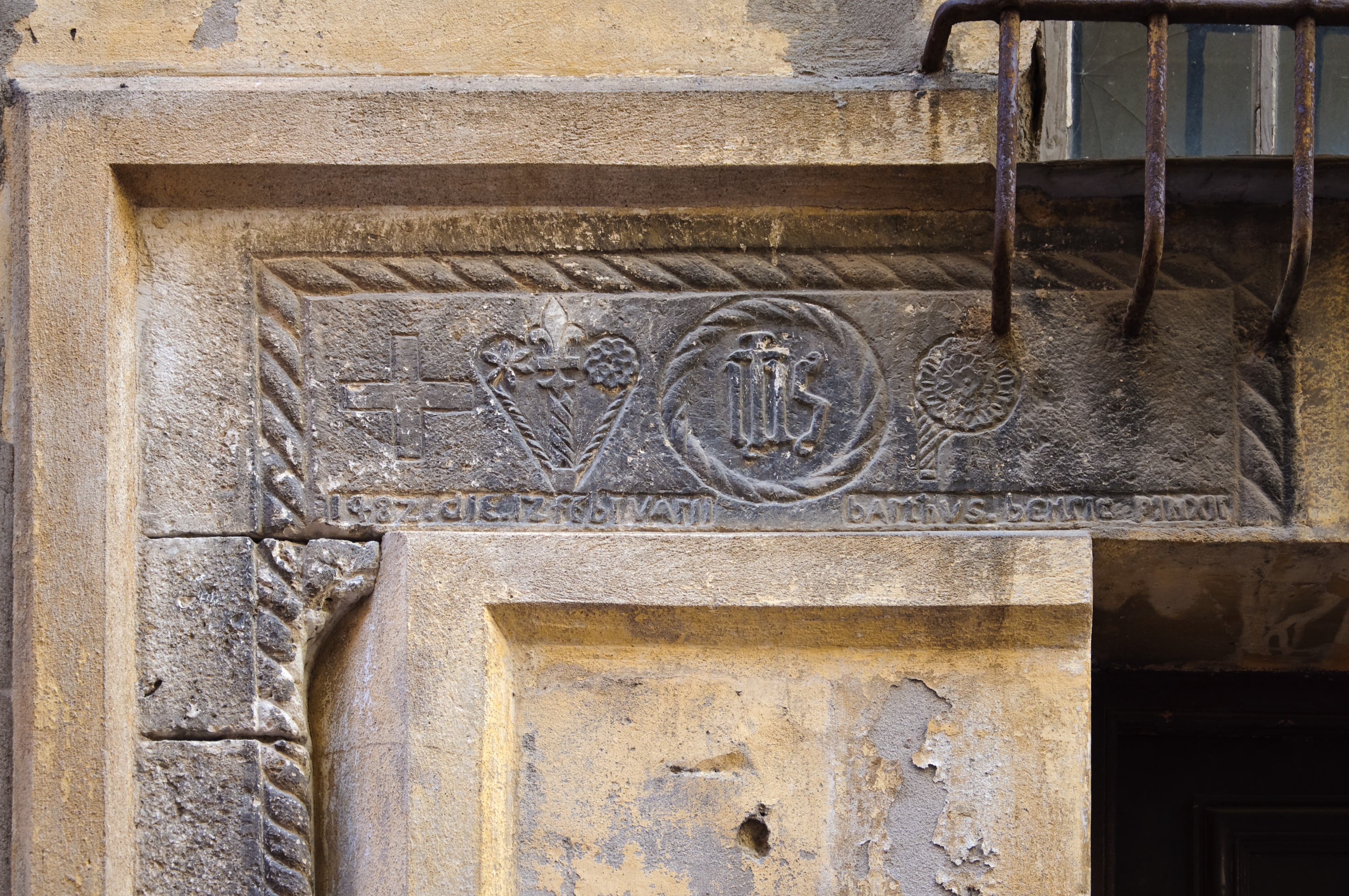 Lintel from 1482 in a street of the old town of Nice, French Riviera.